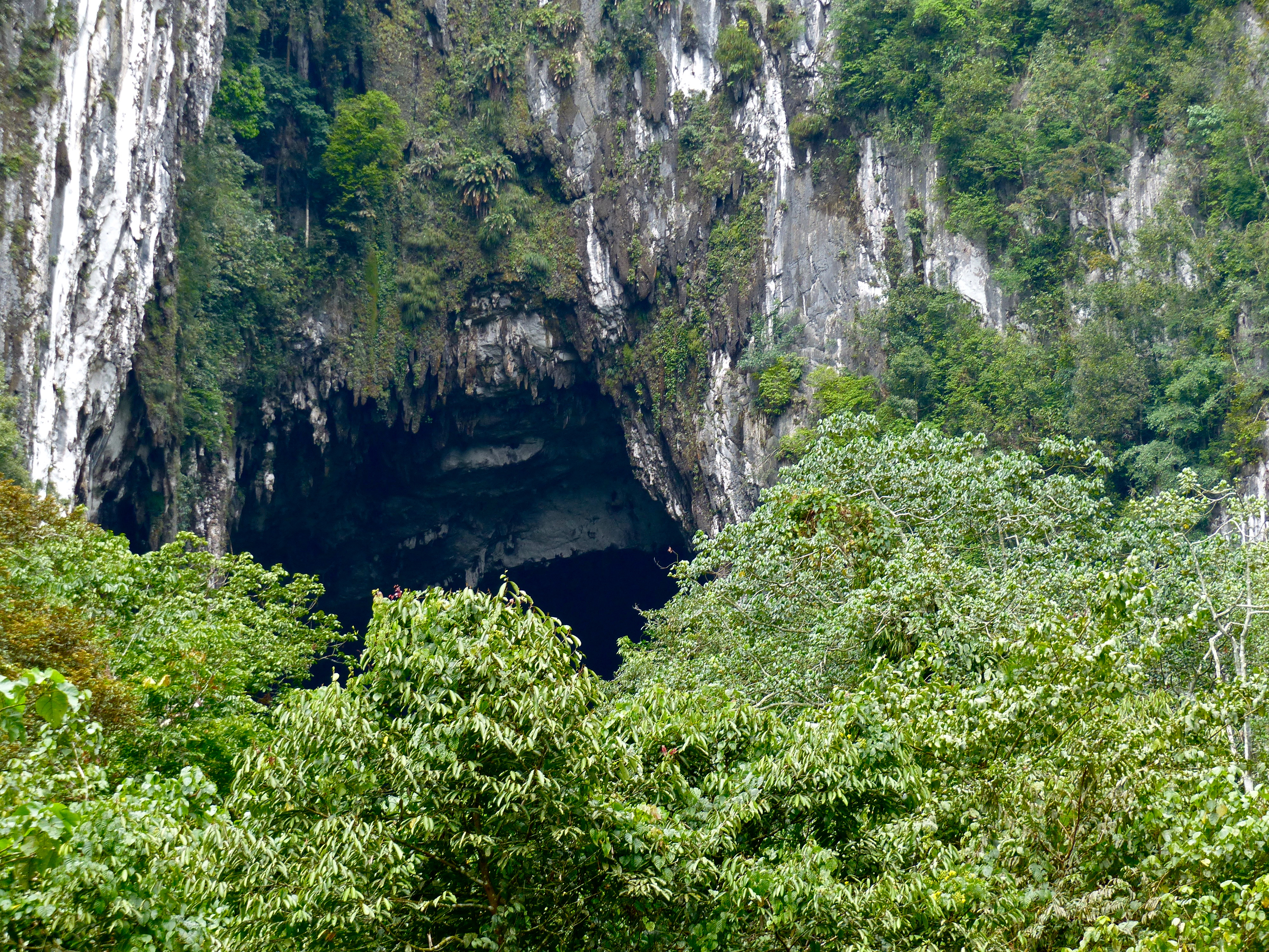 Deer Cave Entrance. Bat Observatory, Mulu NP, Sarawak, MALAYSIA